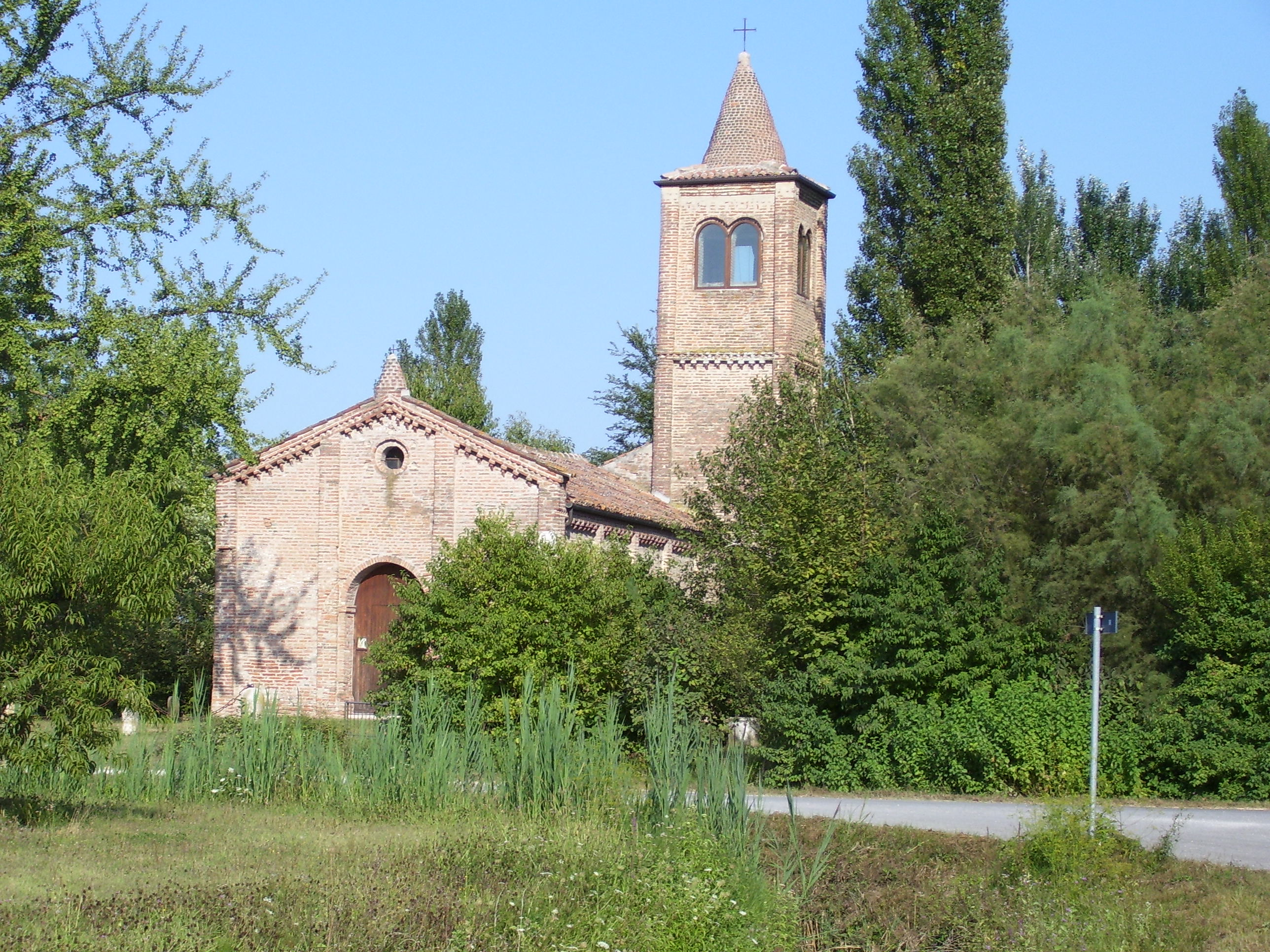 St. Venanzio's Church, nearby Copparo. XIV cent.